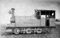 Photograph of Rocket of China